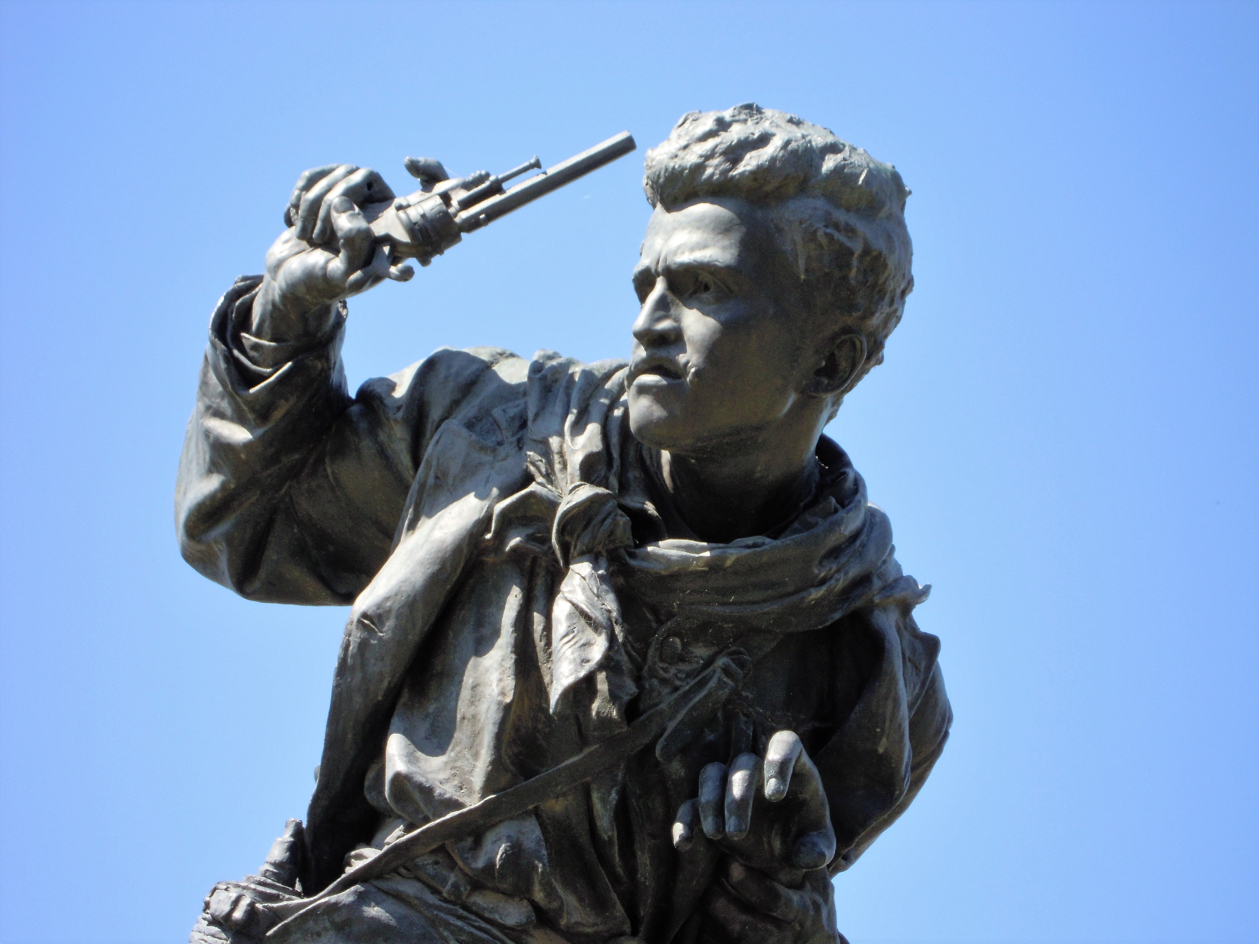 Rome, monument to Cairoli brothers of Ercole Rosa (1883) - detail of Giovanni